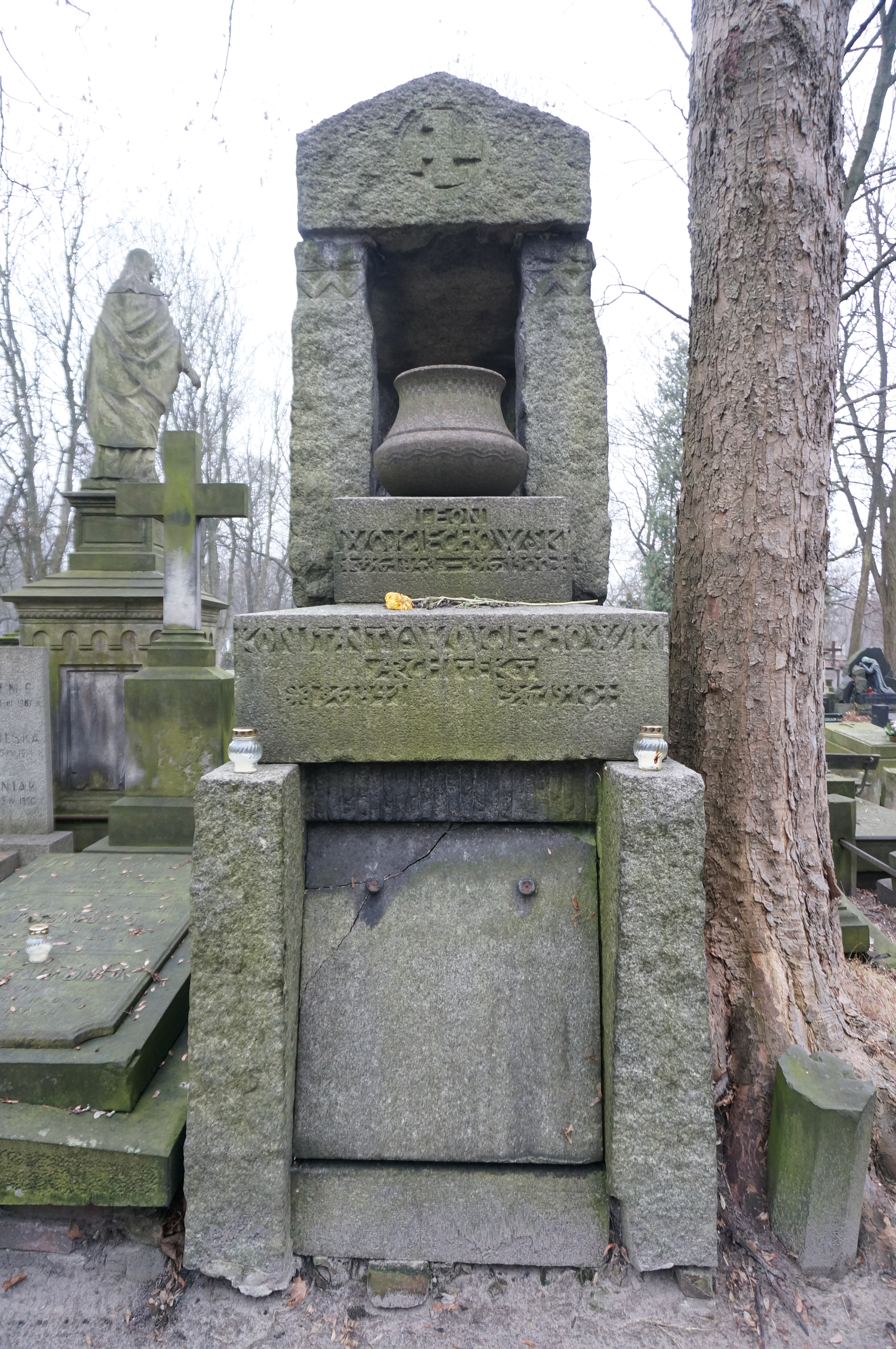 The grave of Konstanty Wojciechowski at the Powązki Cemetery (section K, row 4, grave 7)